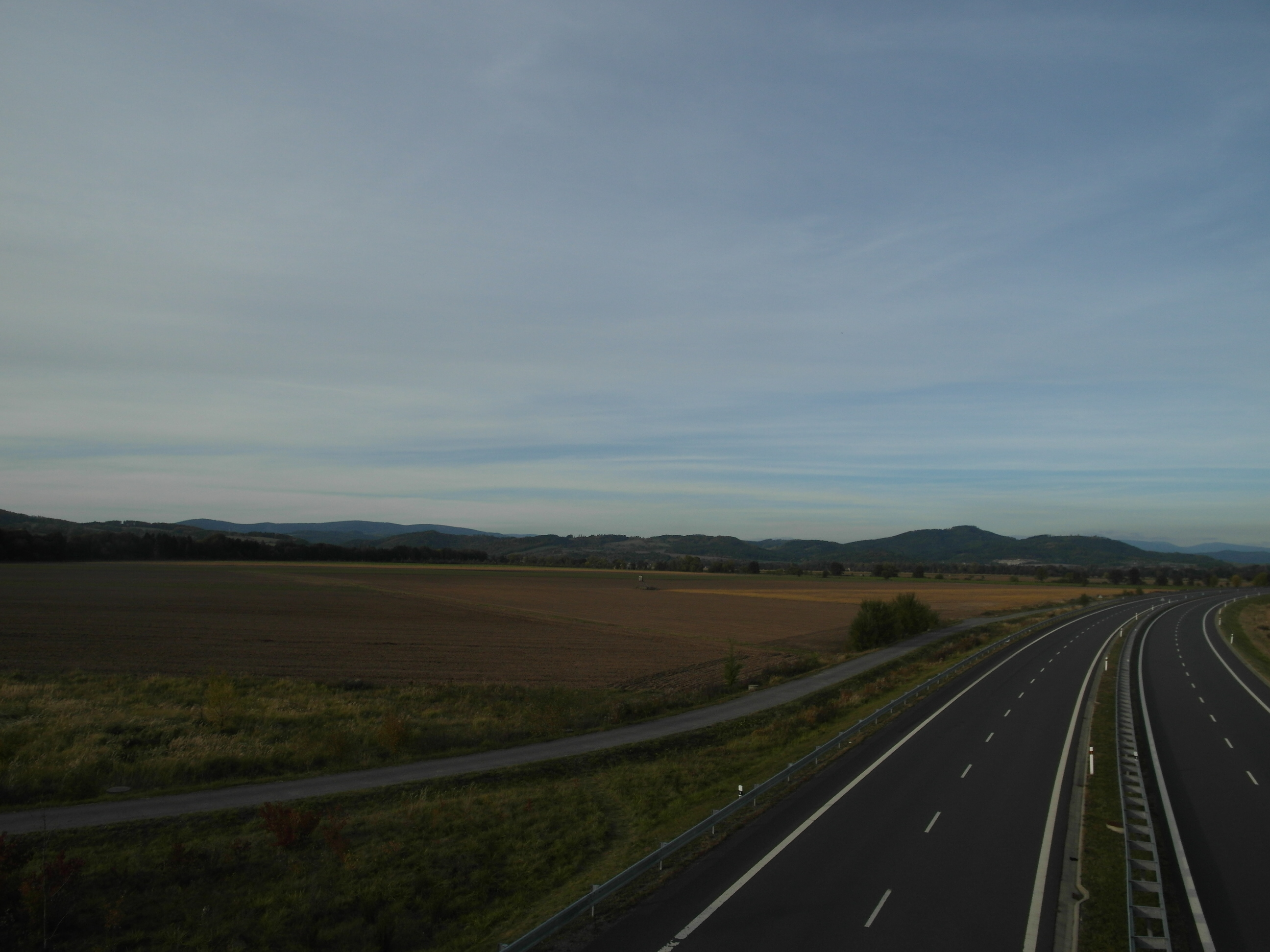 Hanušovická vrchovina